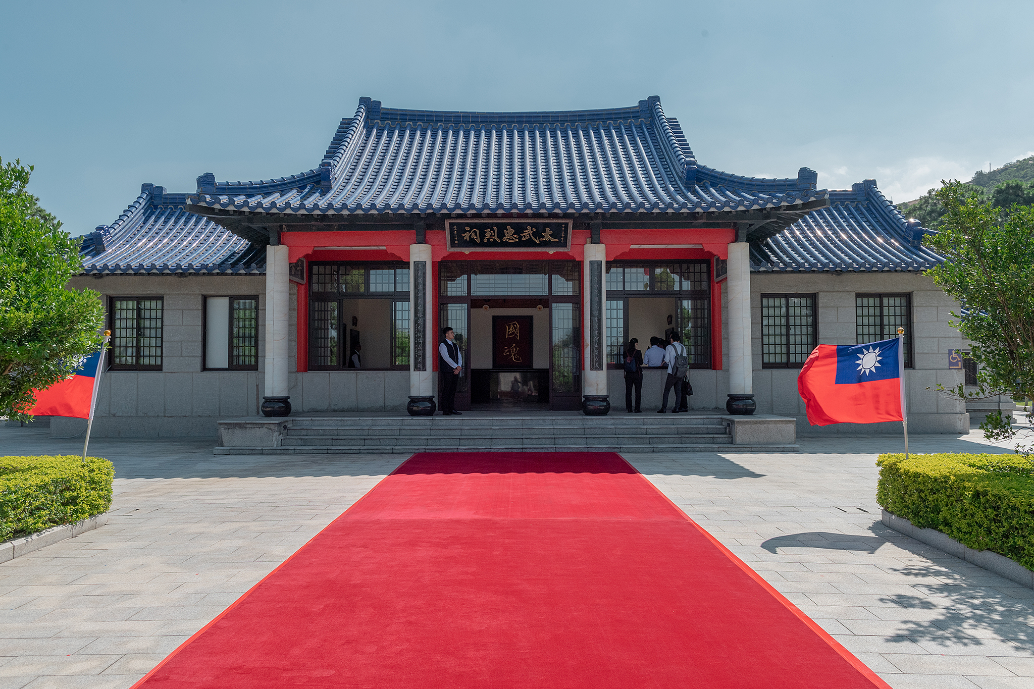 Taiwu Martyrs' Shrine 中文（台灣）: 太武忠烈祠